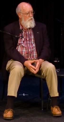 From left to right, Jon Meacham of Newsweek (moderator), Marc Hauser, Daniel Dennett, Antonio Damasio, and Patricia Churchland.